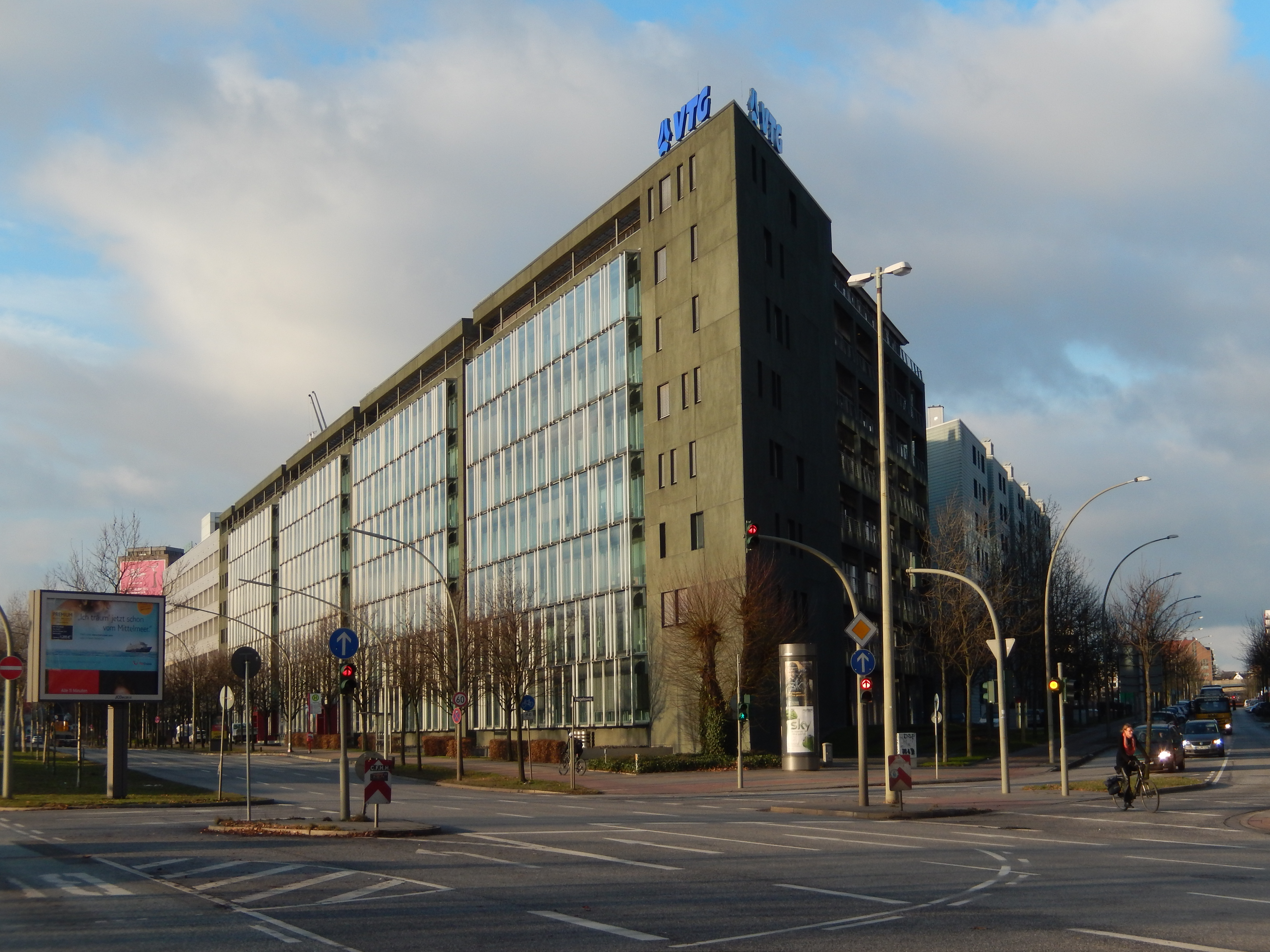 Office of VTG AG in Hamburg, Germany.